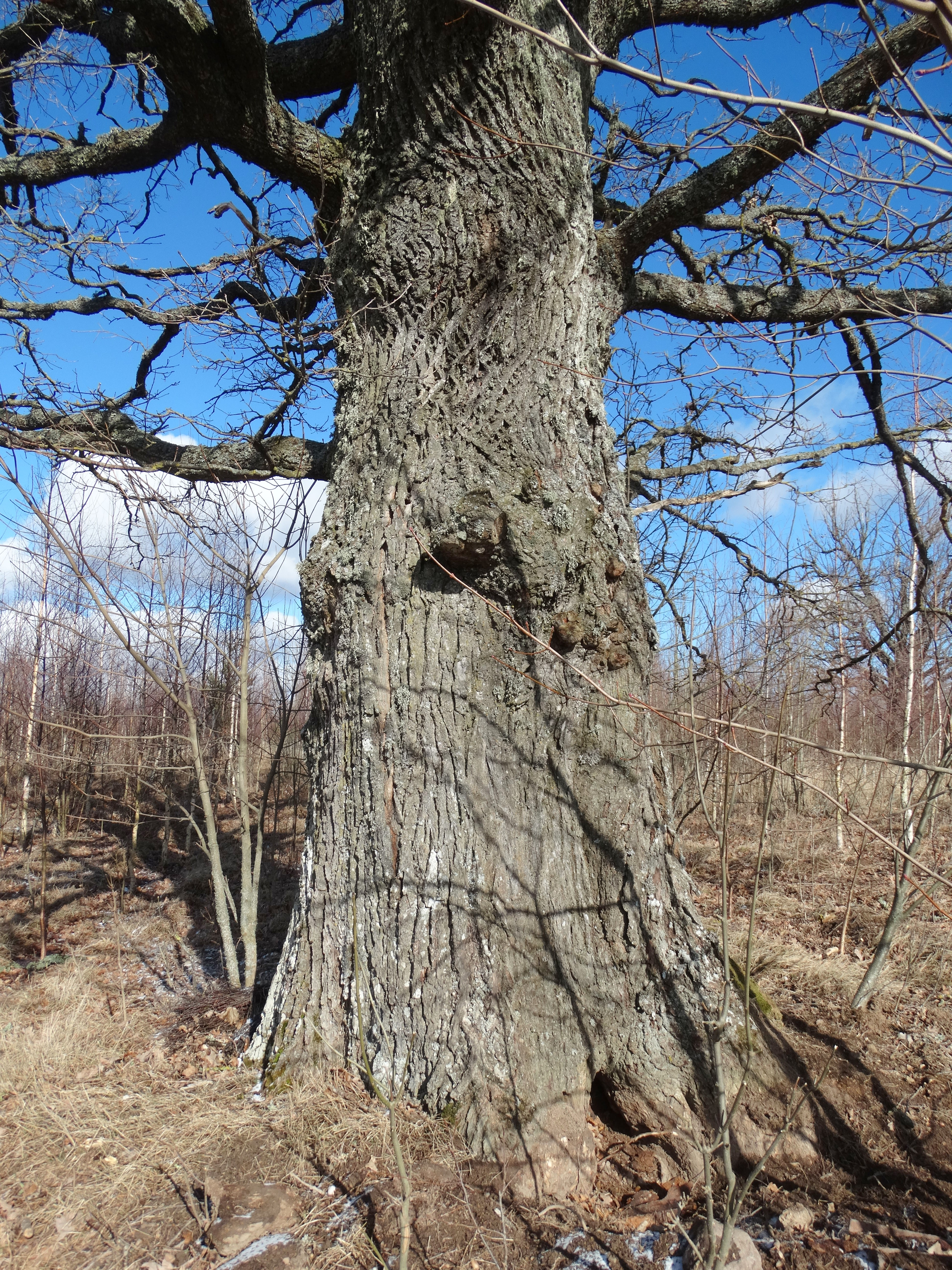 Oak (3rd) in Mukuliai, Zarasai district, Lithuania